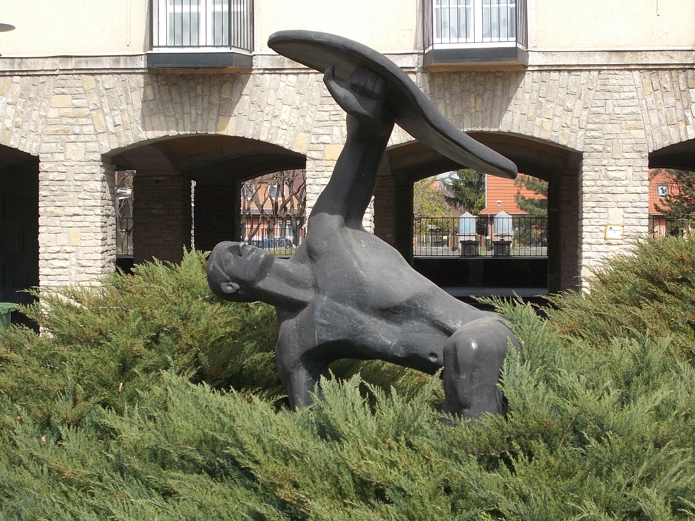 Spartacus (or Gladiator, or the Protector) by Barna Megyeri (1956 bronze statue in socialist Realism style) stand before #78D Kerepesi út, Zugló, Budapest.